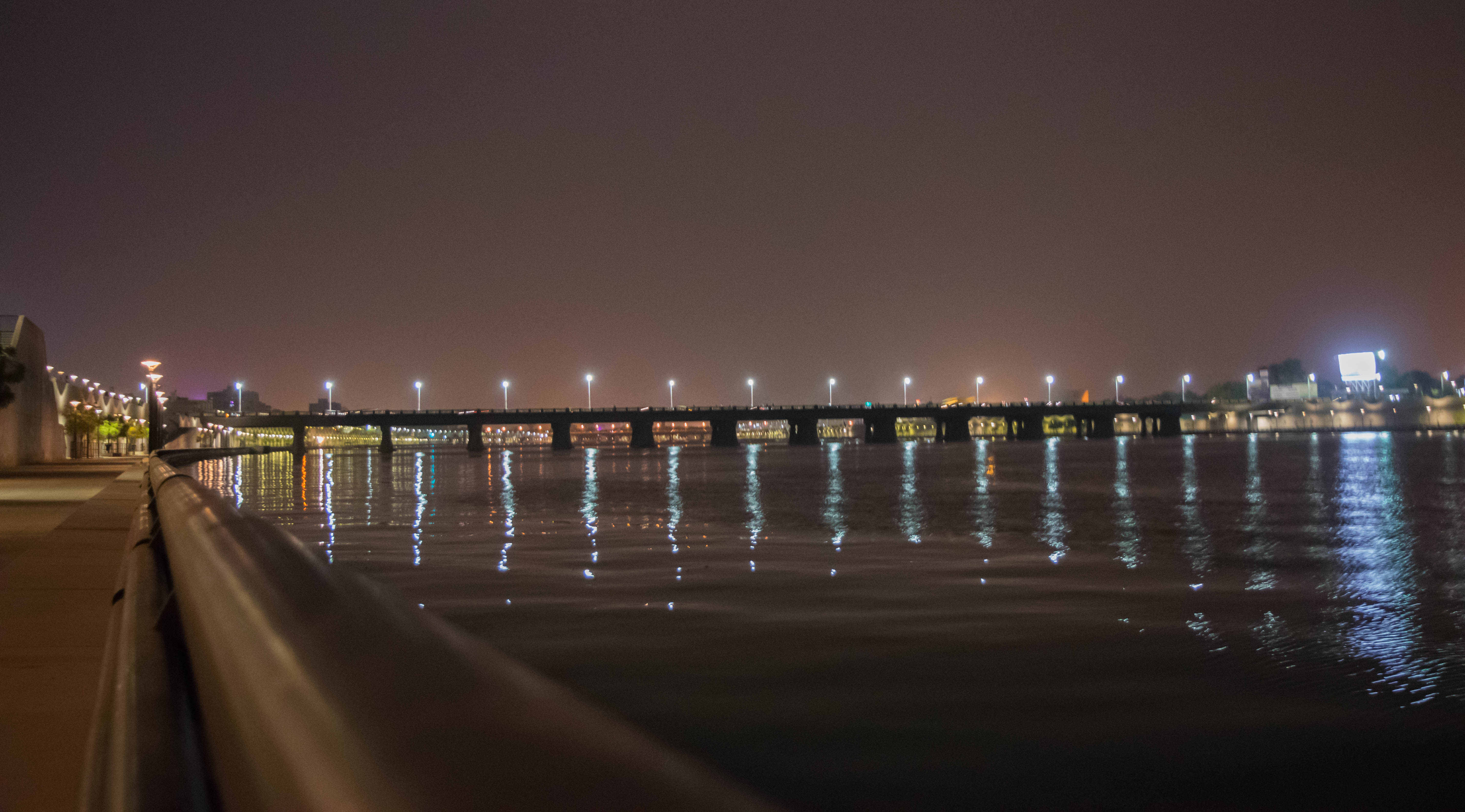 Sabarmati Riverfront at night.